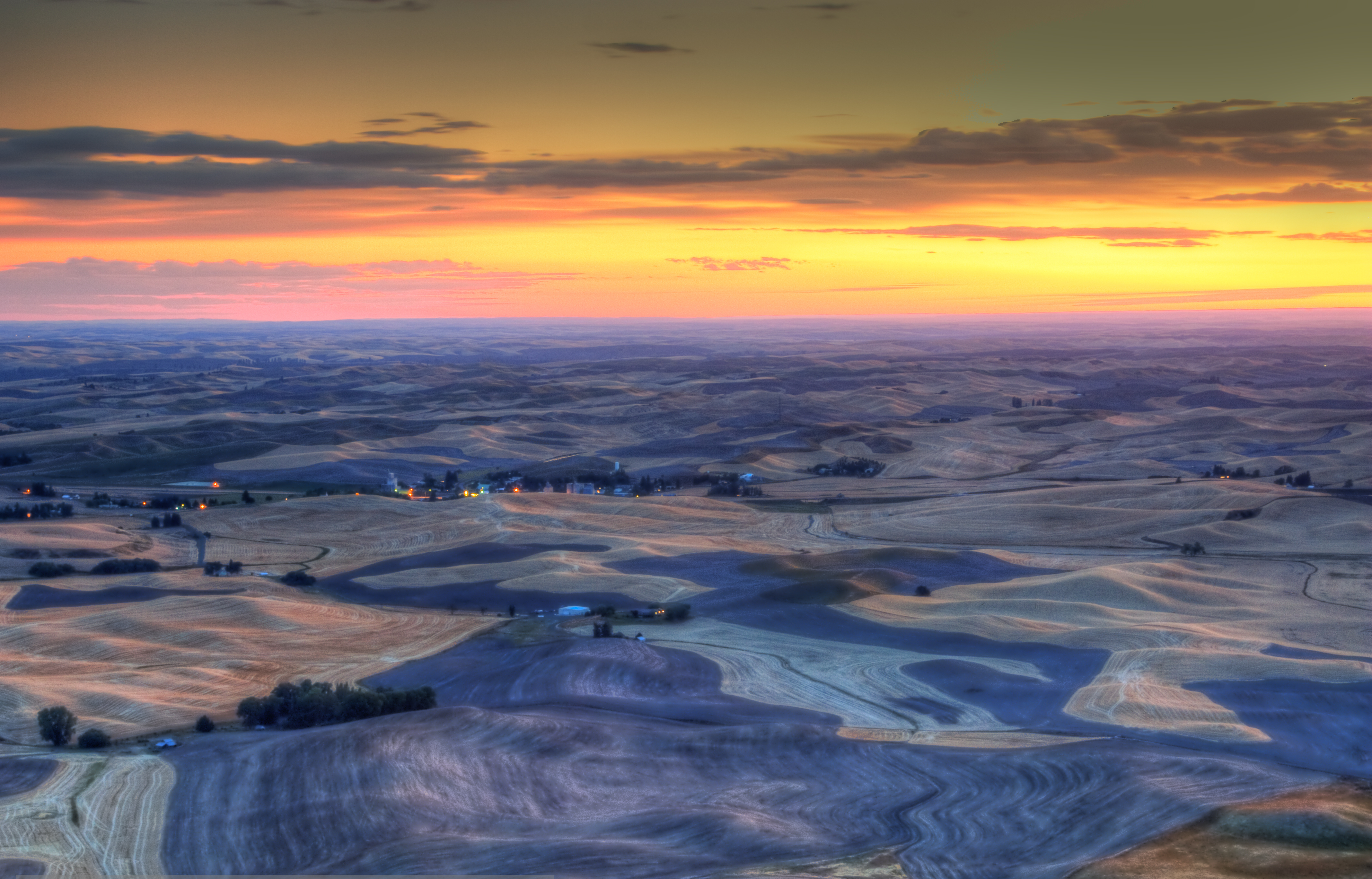 Palouse hills in autumn, eastern Washington, USA